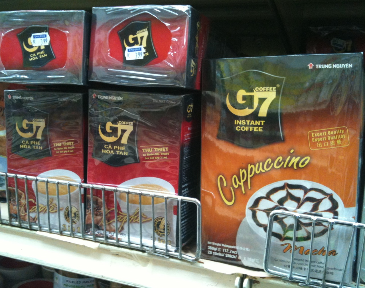 Boxes of Trung Nguyên's G7-brand instant coffee (regular, and mocha cappuccino flavoured) in a shop in Montreal.